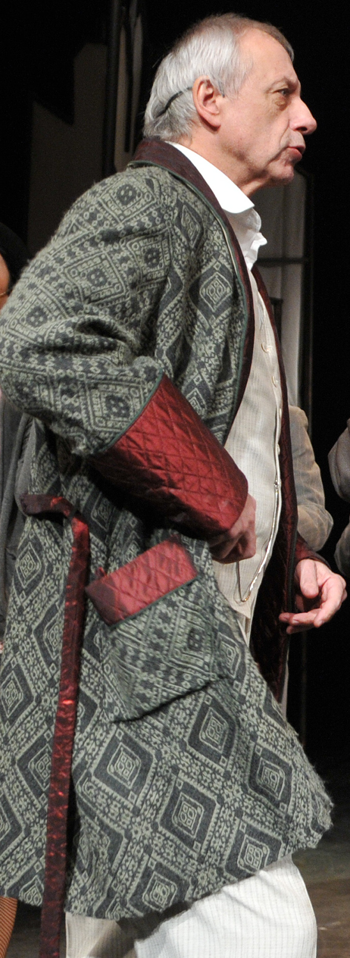 Ladislav Kolář